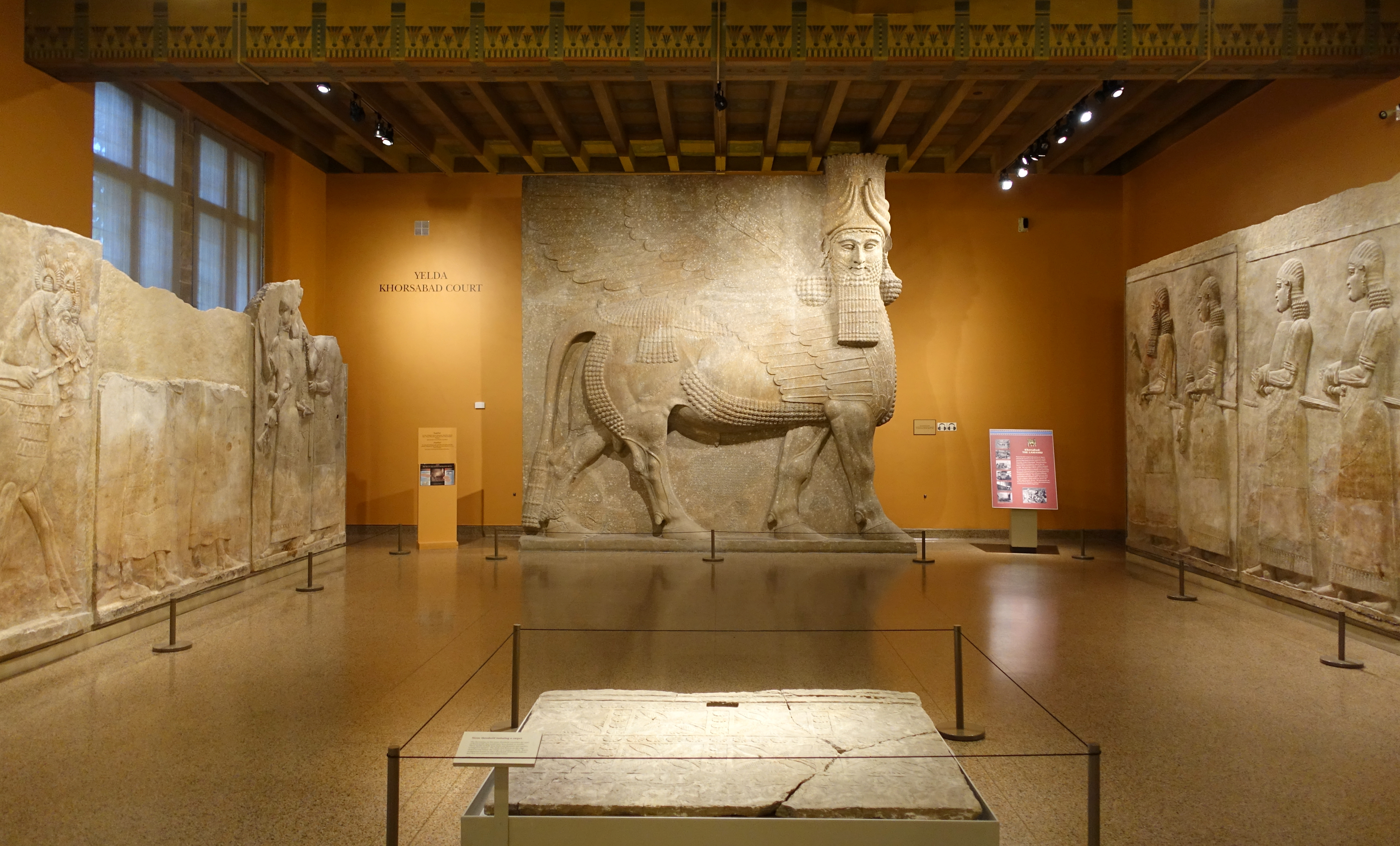 Interior view of the Oriental Institute Museum, University of Chicago, Chicago, Illinois, USA. These works are old enough so that they are in the public domain.